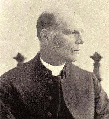 Maurice Scollard Baldwin Title: The bishops of the Church of England in Canada and Newfoundland; being an illustrated historical sketch of the Church of England in Canada, as traced through her episcopate Creator: Mockridge, Charles H. (Charles Henry), 1844-1913 Date: 1896 Publisher: Toronto : F.N.W. Brown Possible Copyright Status: NOT_IN_COPYRIGHT